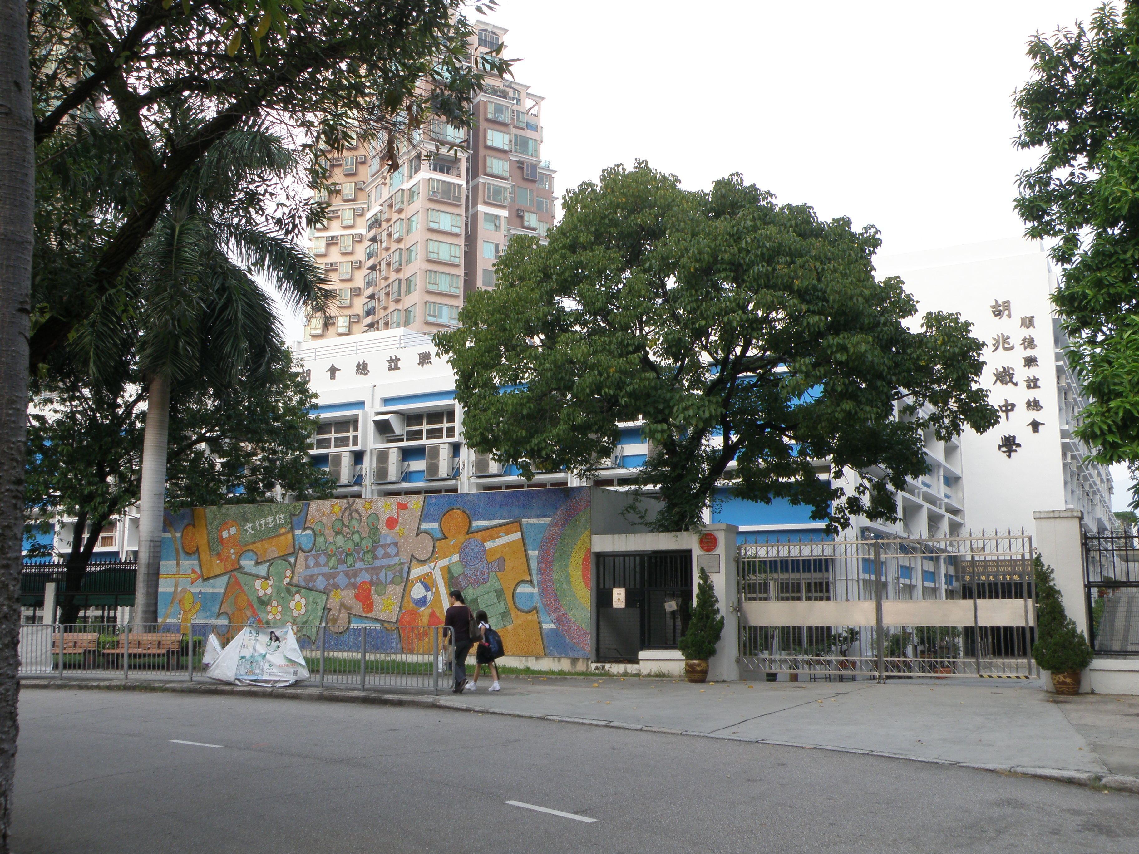 Shun Tak Fraternal Association Seaward Woo College in Ho Man Tin, Hong Kong.